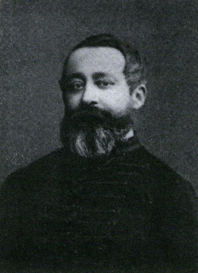 Count Josip Barbo Waxenstein (1825-1879), Slovenian nobleman and politician